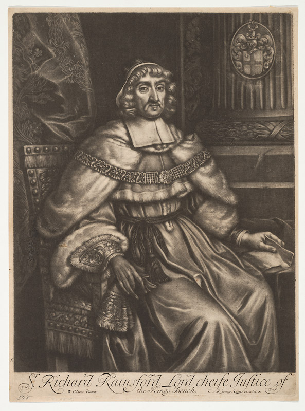 Richard Raynsford (1605-1680)